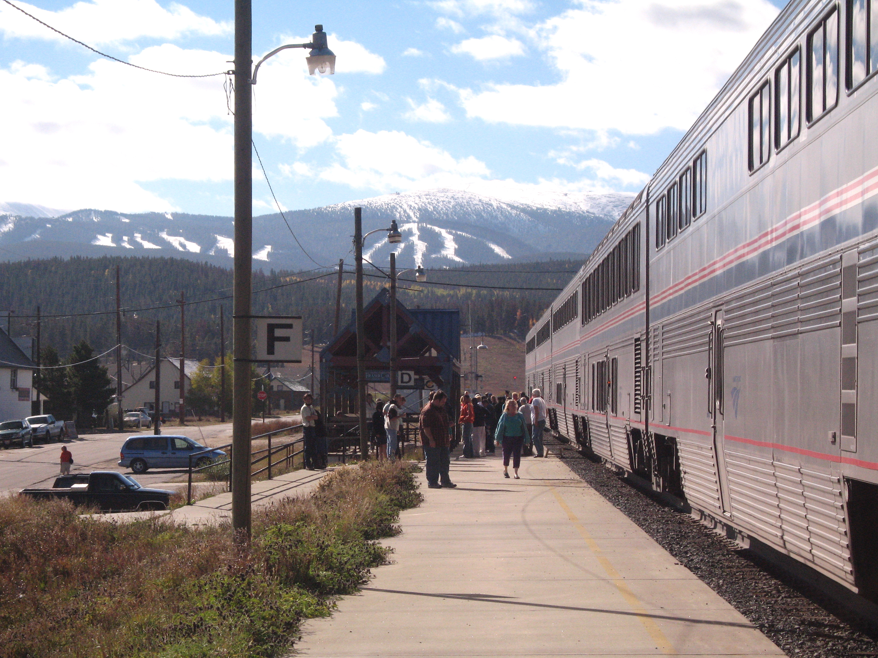 Amtrak California Zephyr at Fraser - Winter Park station in 2006